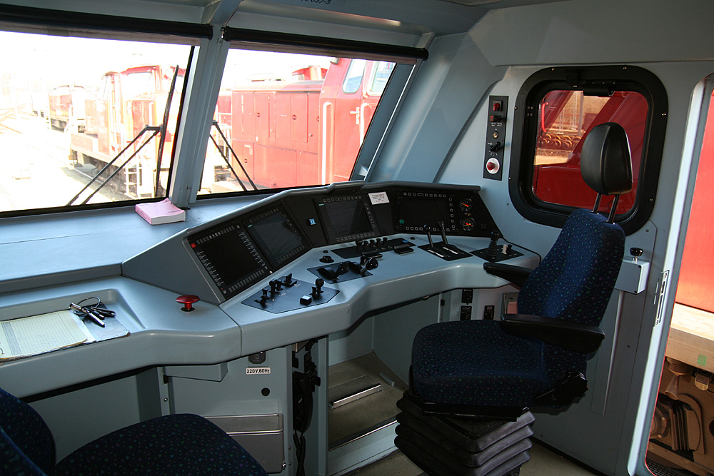 The driver's cab on a DB class 189 locomotive